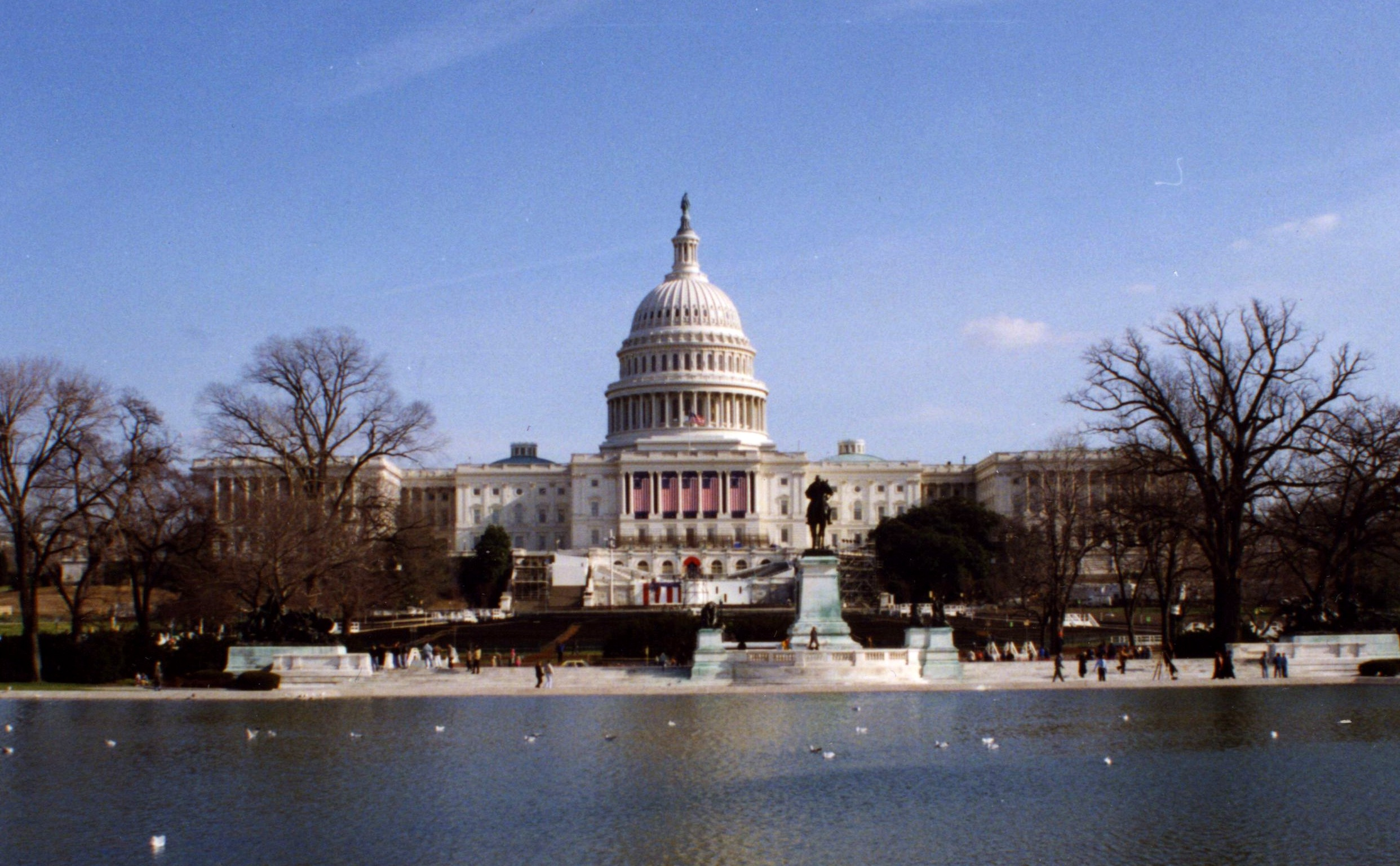 The Capitol being prepared for the inauguration. 17 Jan 1993